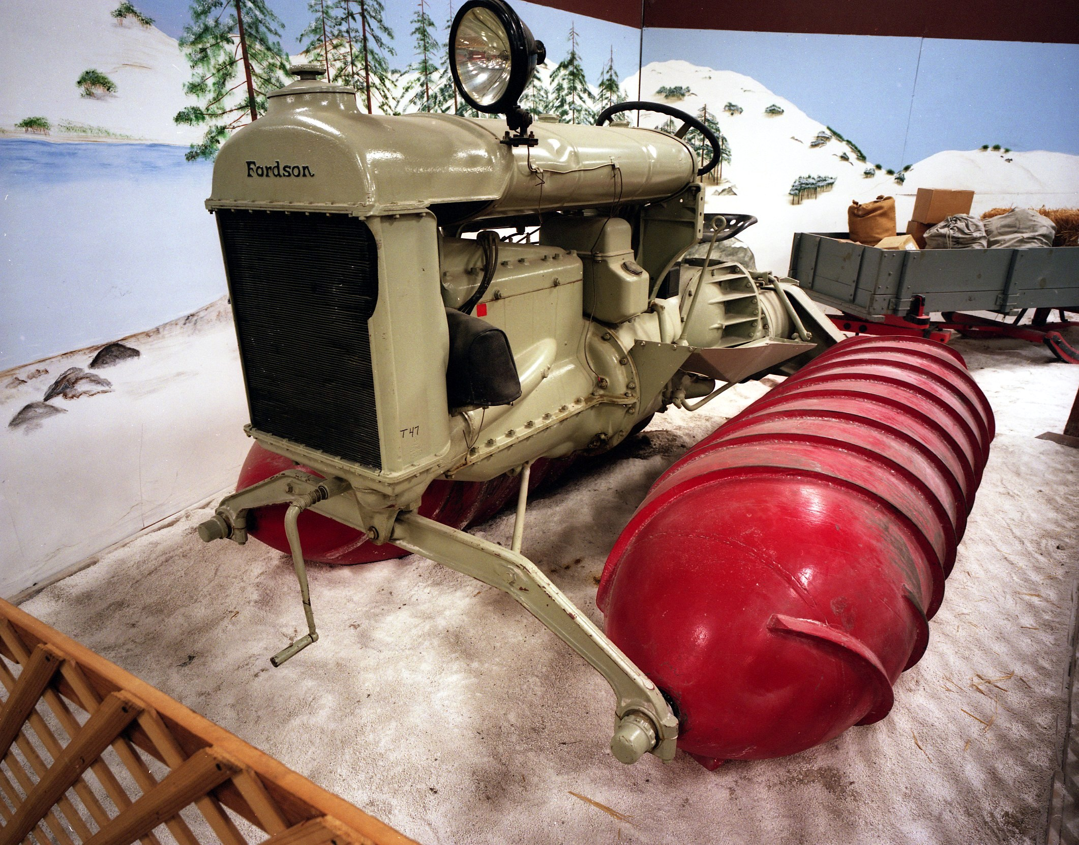 large/black It has twin screw drives and is capable of hauling a ton at 12 mph. This machine used to carry the US mail and freight in the Truckee area of the Sierra Nevada Mountains. Heidrick Ag History Center, Woodland, California Mamiya 7, 43mm lens, Kodak 400VC